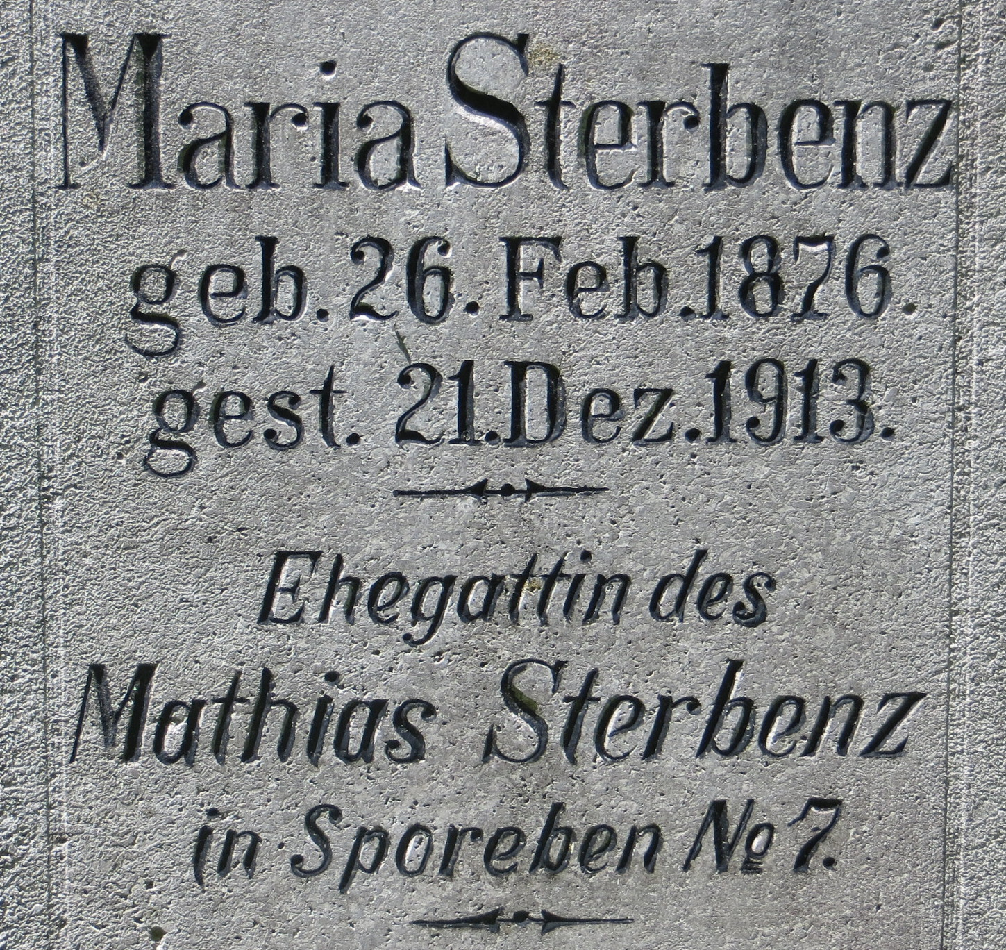 Gravestone at Prophet Elijah Church in Planina, Municipality of Semič, Slovenia with the German place name Sporeben (Slovenian: Ponikve)